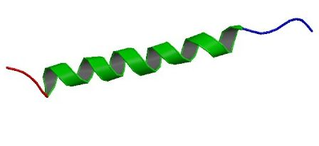 X-Ray Crystal Structure of Glucagon based on PDB 1GCN